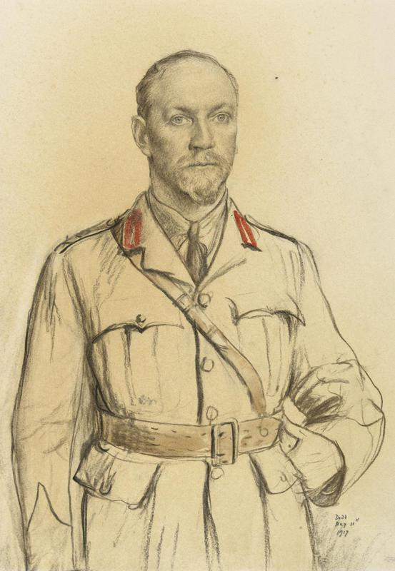 General the Right Hon Jan Christian Smuts, Pc, Kc image: a half length portrait of General Jan Smuts in uniform, standing and holding his peaked cap under his left arm, staring intently forward.